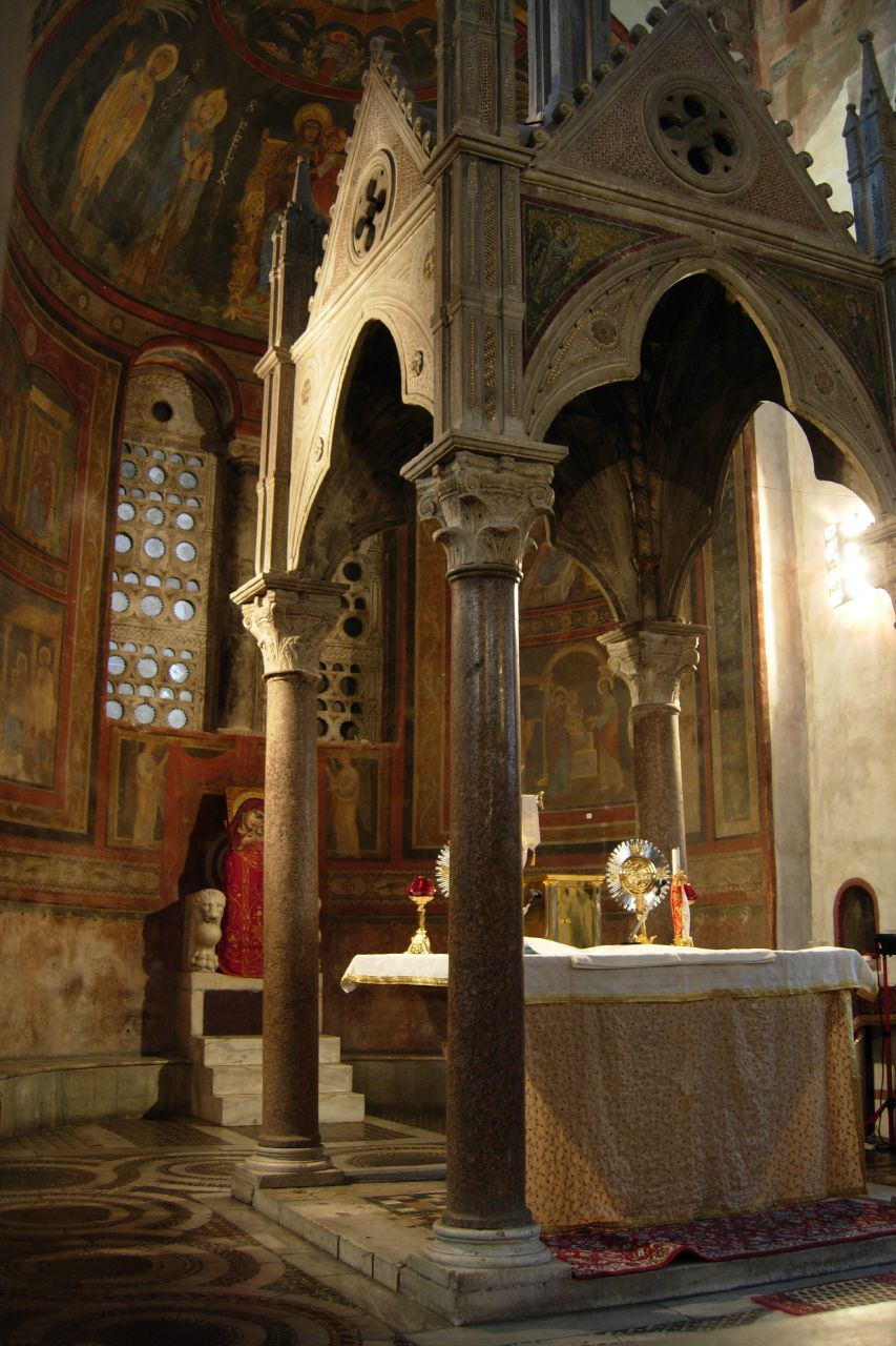 Santa Maria Cosmedin a Roma - Paleochristian Church in Rome, near the mouth of truth.